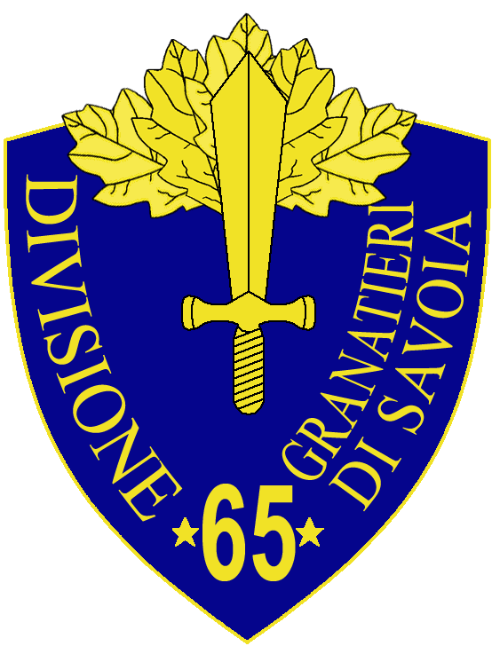 65a Divisione Fanteria Granatieri di Savoia insignia, Regio Esercito, Italy, WWII